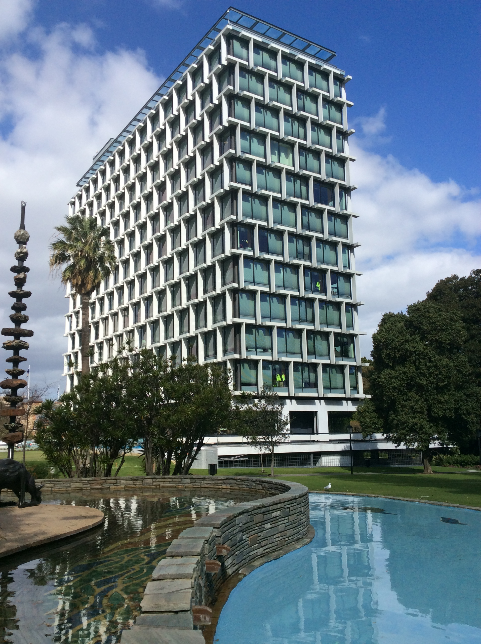 Council House (Q5176234) Western Australia heritage list